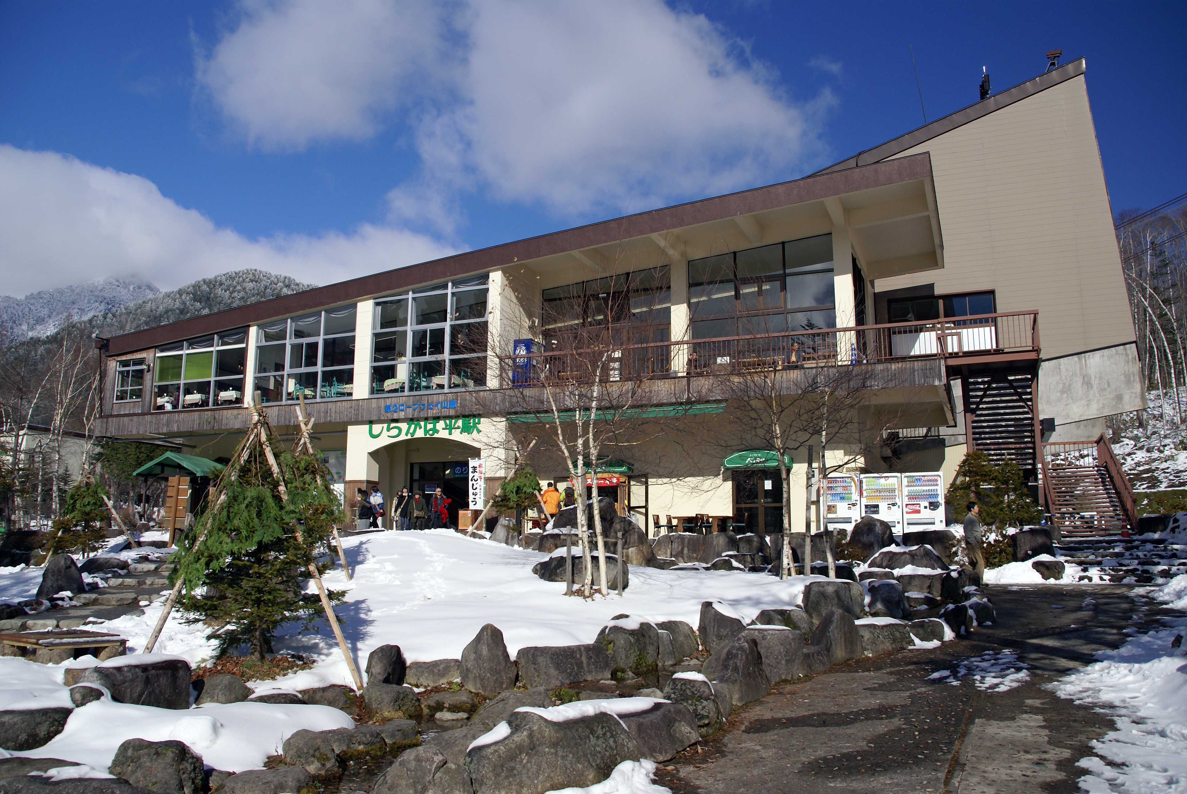 Shinhotaka Ropeway in Takayama, Gifu prefecture, Japan